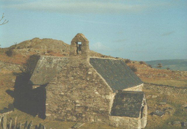 Eglwys Llangelynnin, near to Rowen, Conwy County, Wales. A simple medieval church. With the drift of population from the uplands it was replaced by new church at Rowen.